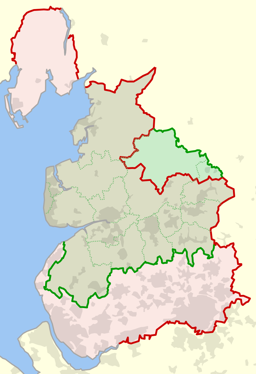 The historical boundary of the county of Lancashire, England, shown in red, and the modern-day boundary (since 1974), shown in green. Also shown in dotted green are the modern-day local government districts and unitary authorities of ceremonial Lancashire.